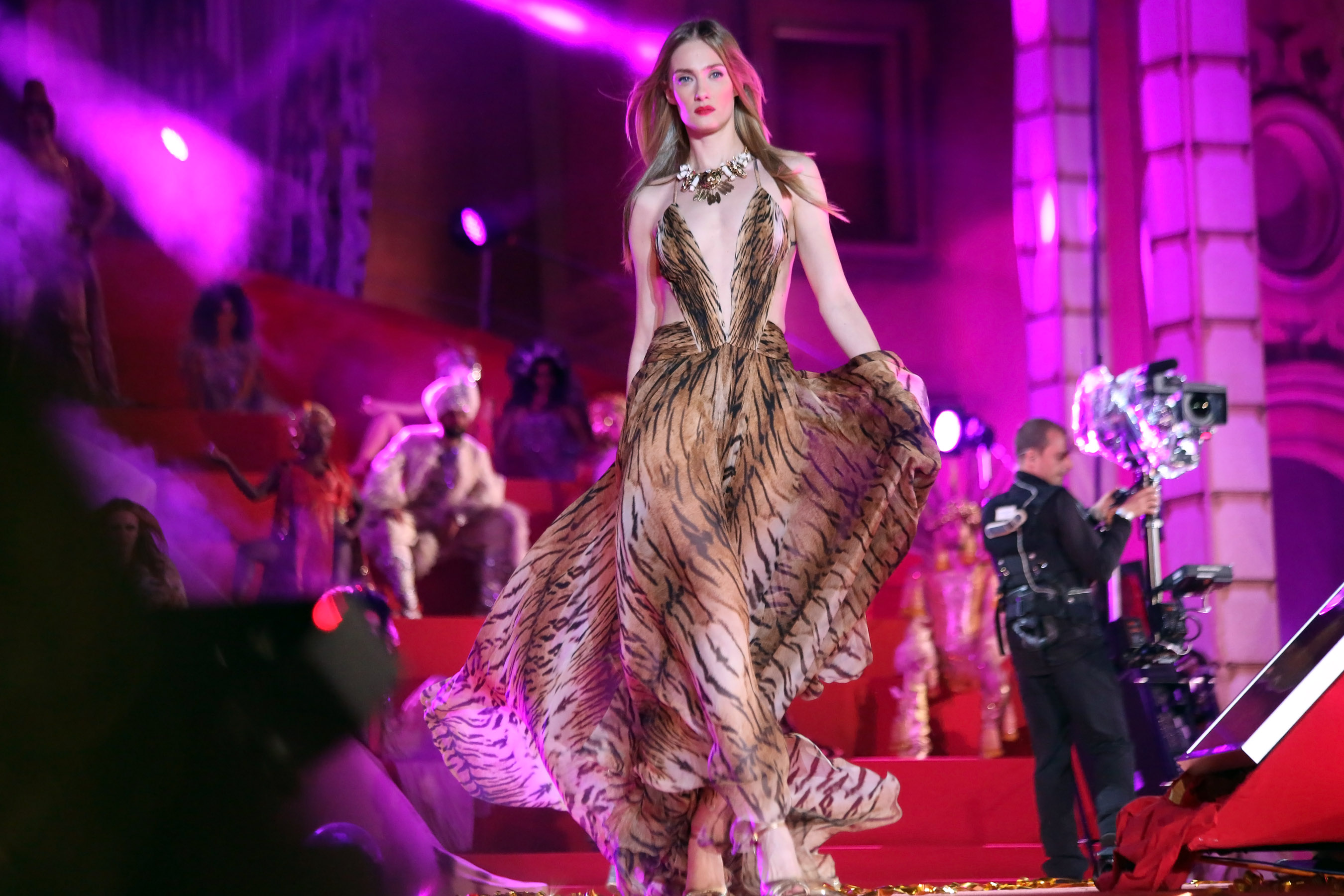 Eva Riccobono, fashion show by Roberto Cavalli, opening of Life Ball 2013 at the city hall of Vienna, Vienna, Austria.